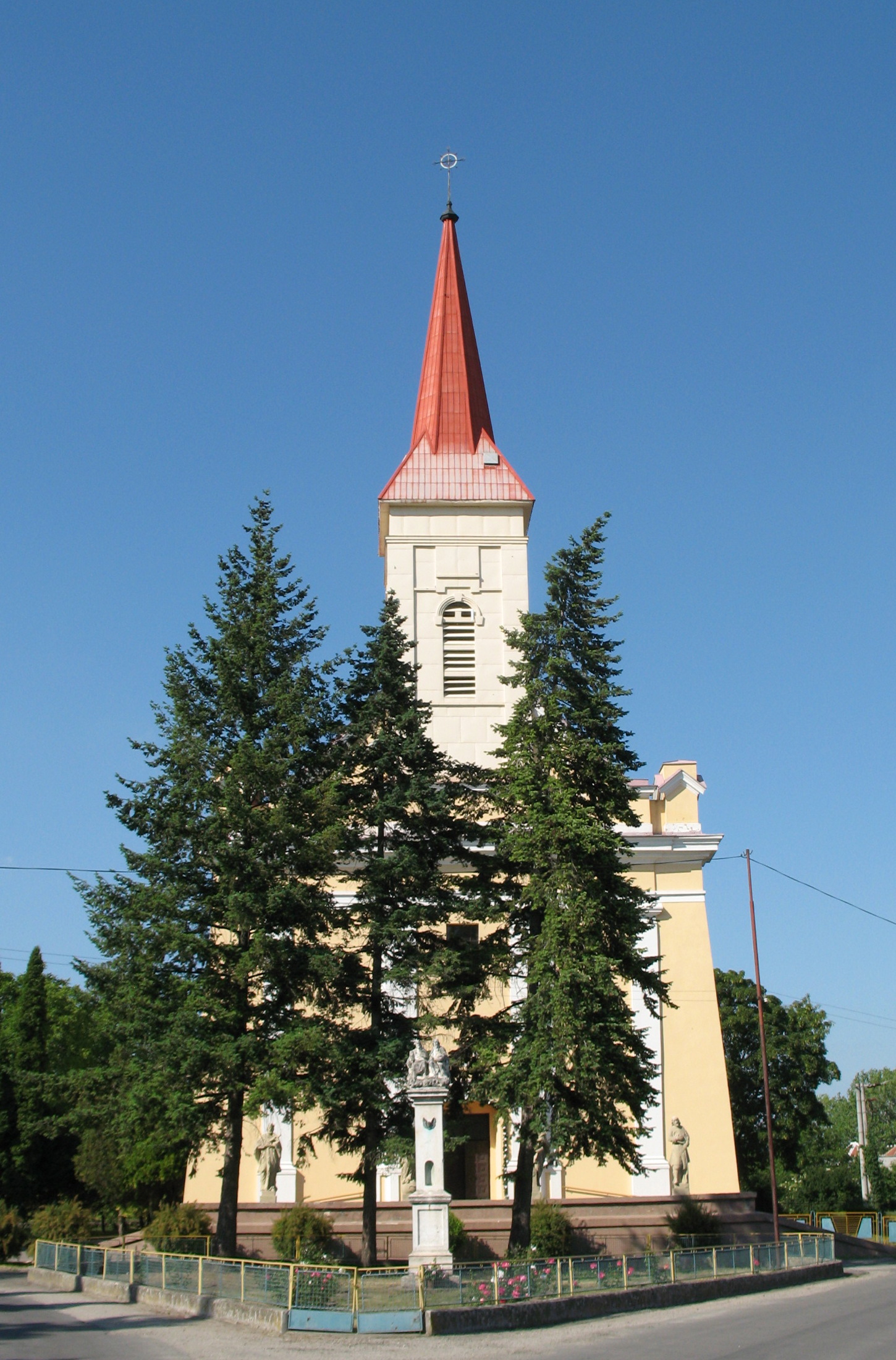 Church St. Elizabeth in Komjatice